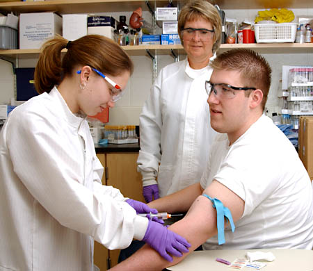 Students practice phlebotomy on campus before their phlebotomy rotation in the fall semester of the junior year.